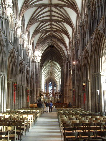 The nave of Lichfield Cathedral (taken by Excalibur, 29th Dec 2007)